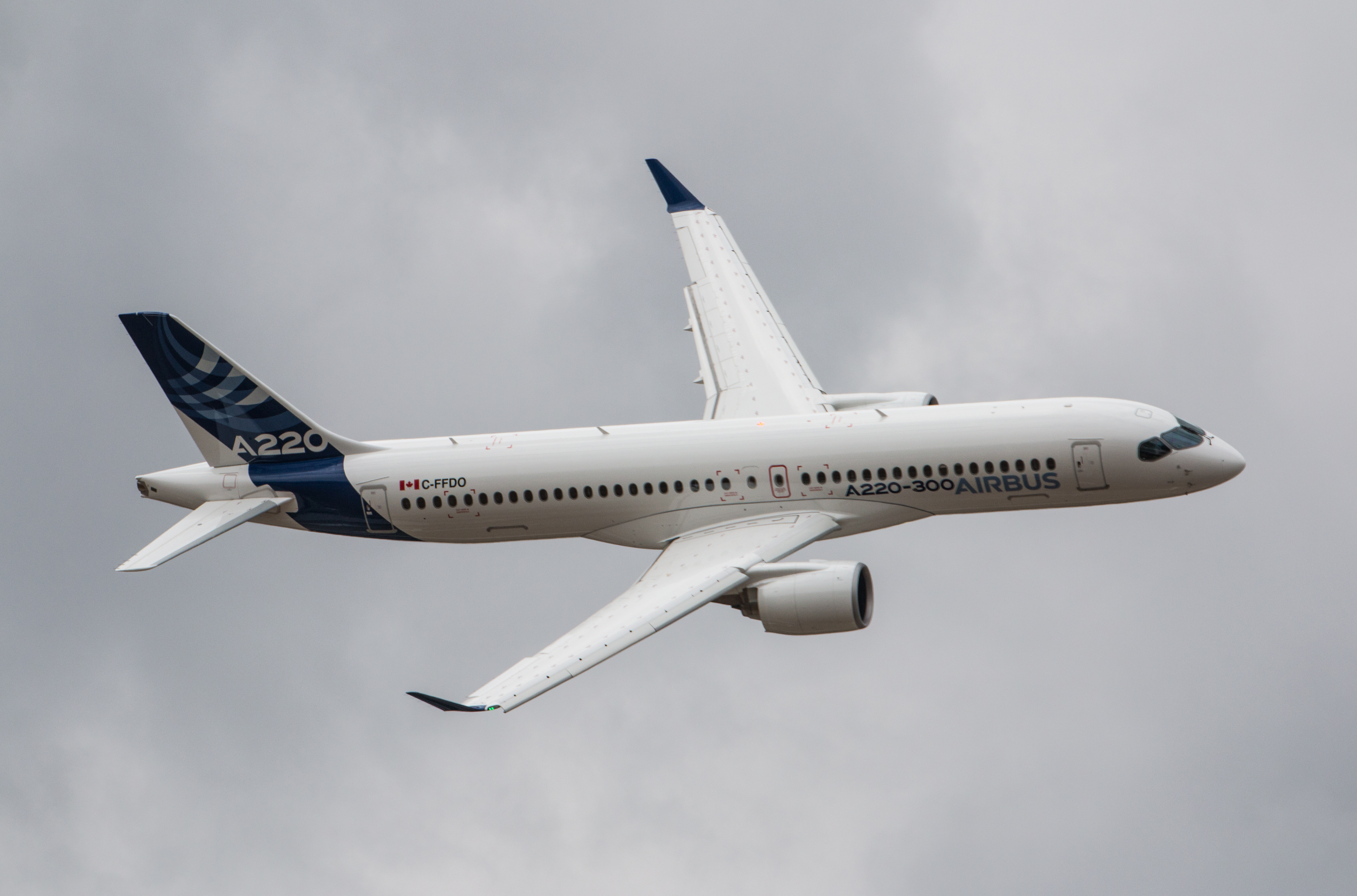 Farnborough International Airshow 2018, Hampshire